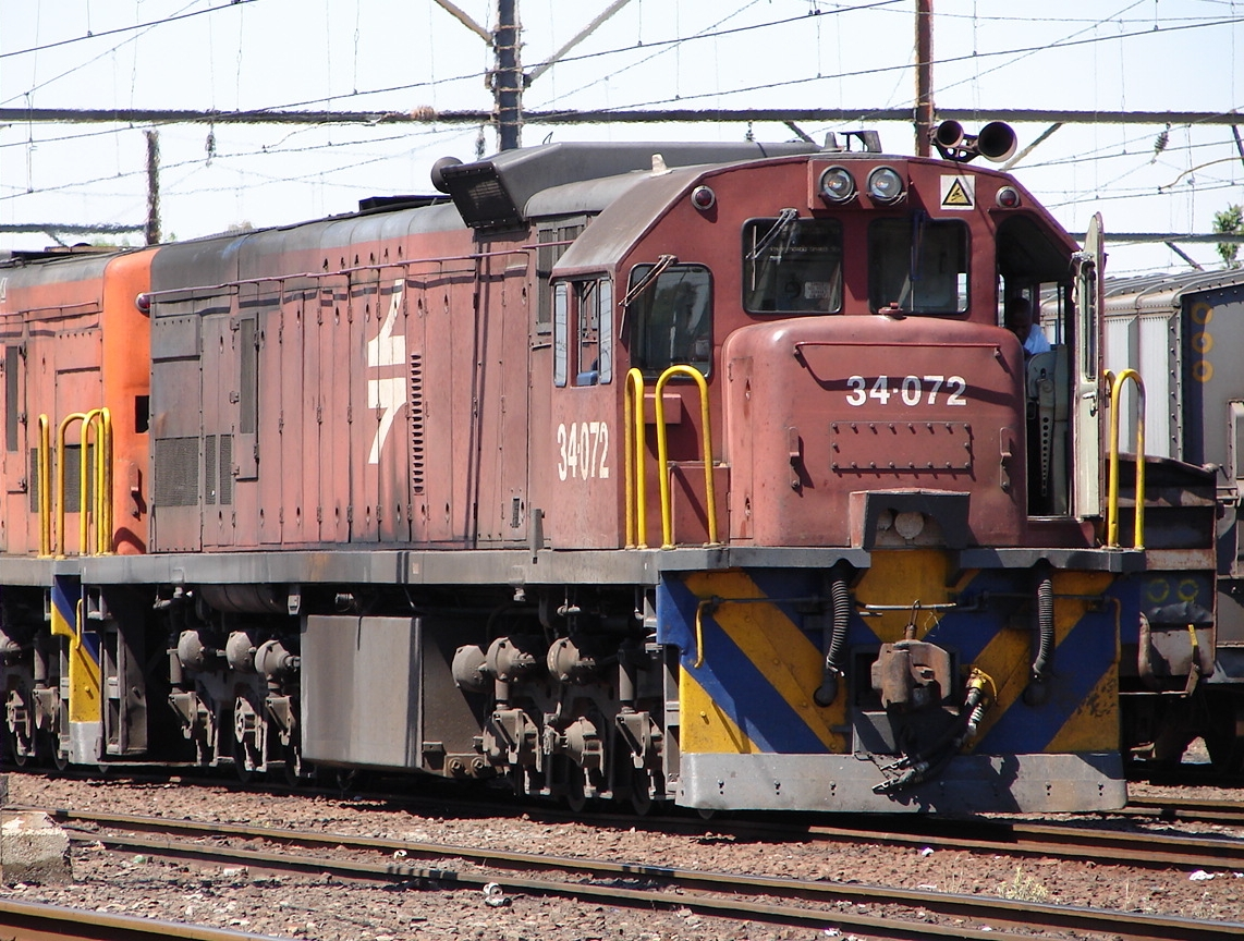 South African Class 34-000 34-072 Builder's Number: GE 37881 Type: GE U26C Location: Bloemfontein, Free State